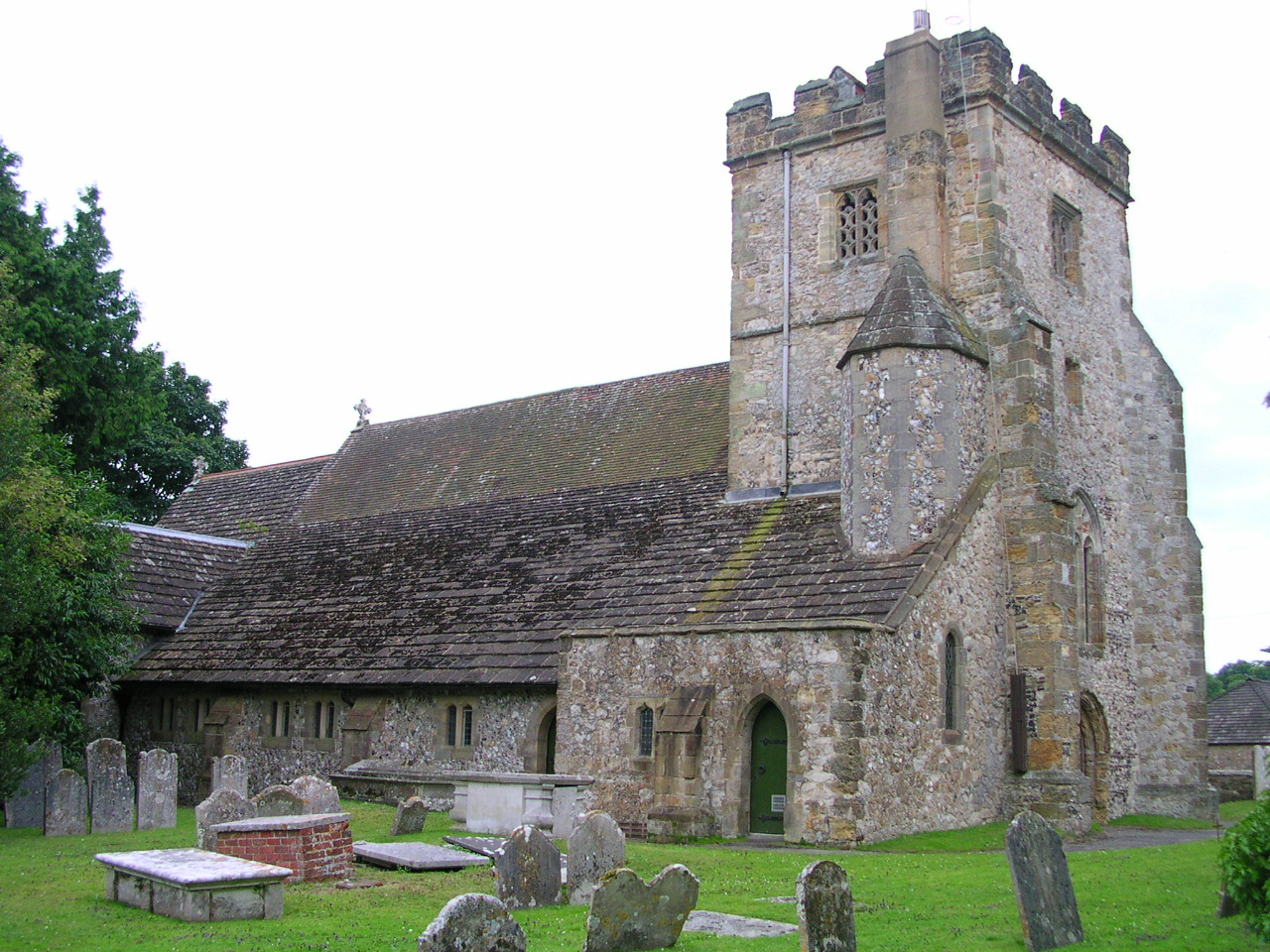 Washington Church, West Sussex, England.